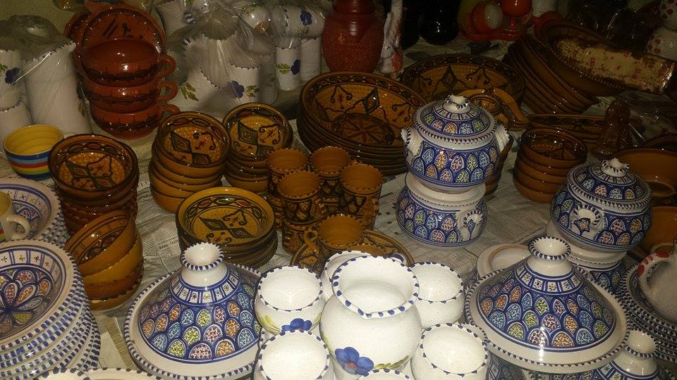 ISHAQ GHACHI 2015 This is an image of Cultural Fashion or Adornment from Algeria